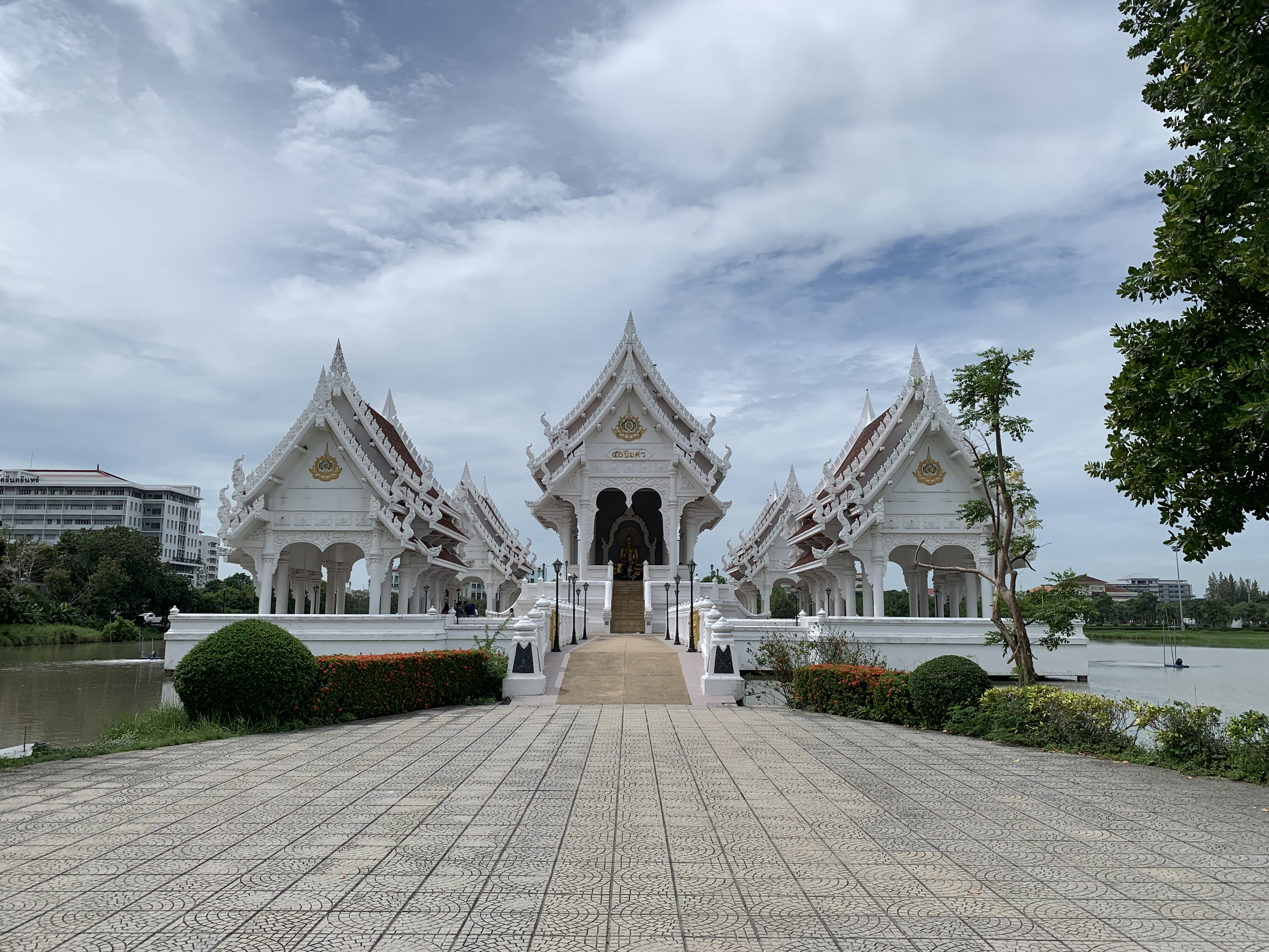 Buddharupa Shrine, Srinakharinwirot University Ongkharak Campus